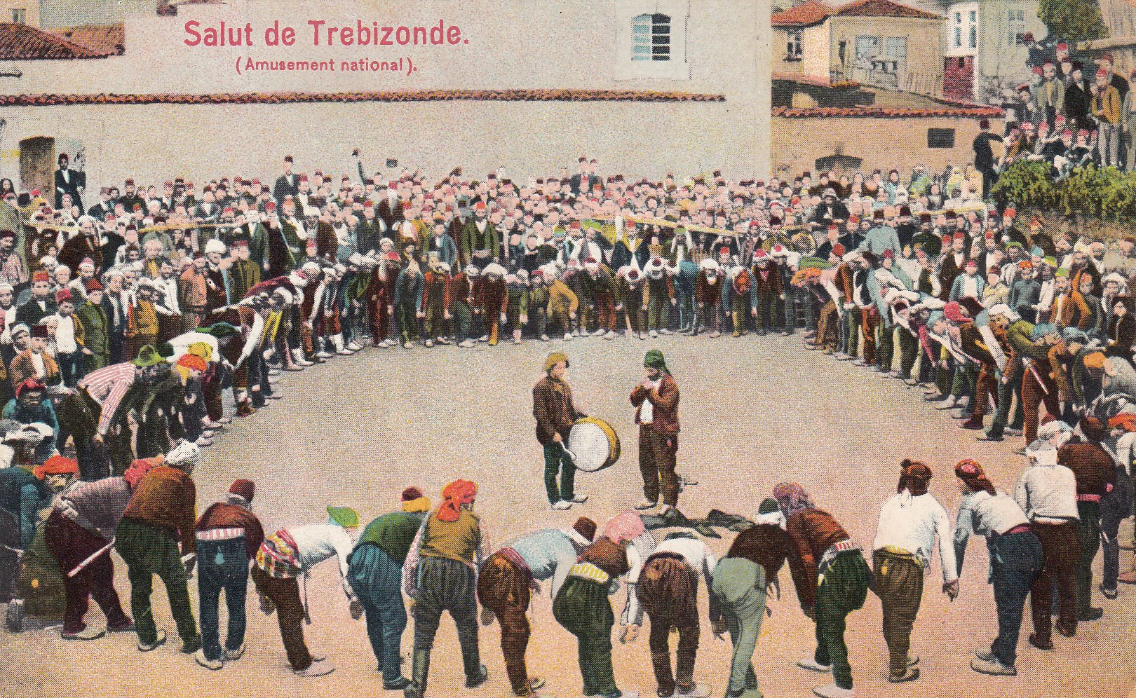 National dance of Trebizond (Trabzon, Turkey).